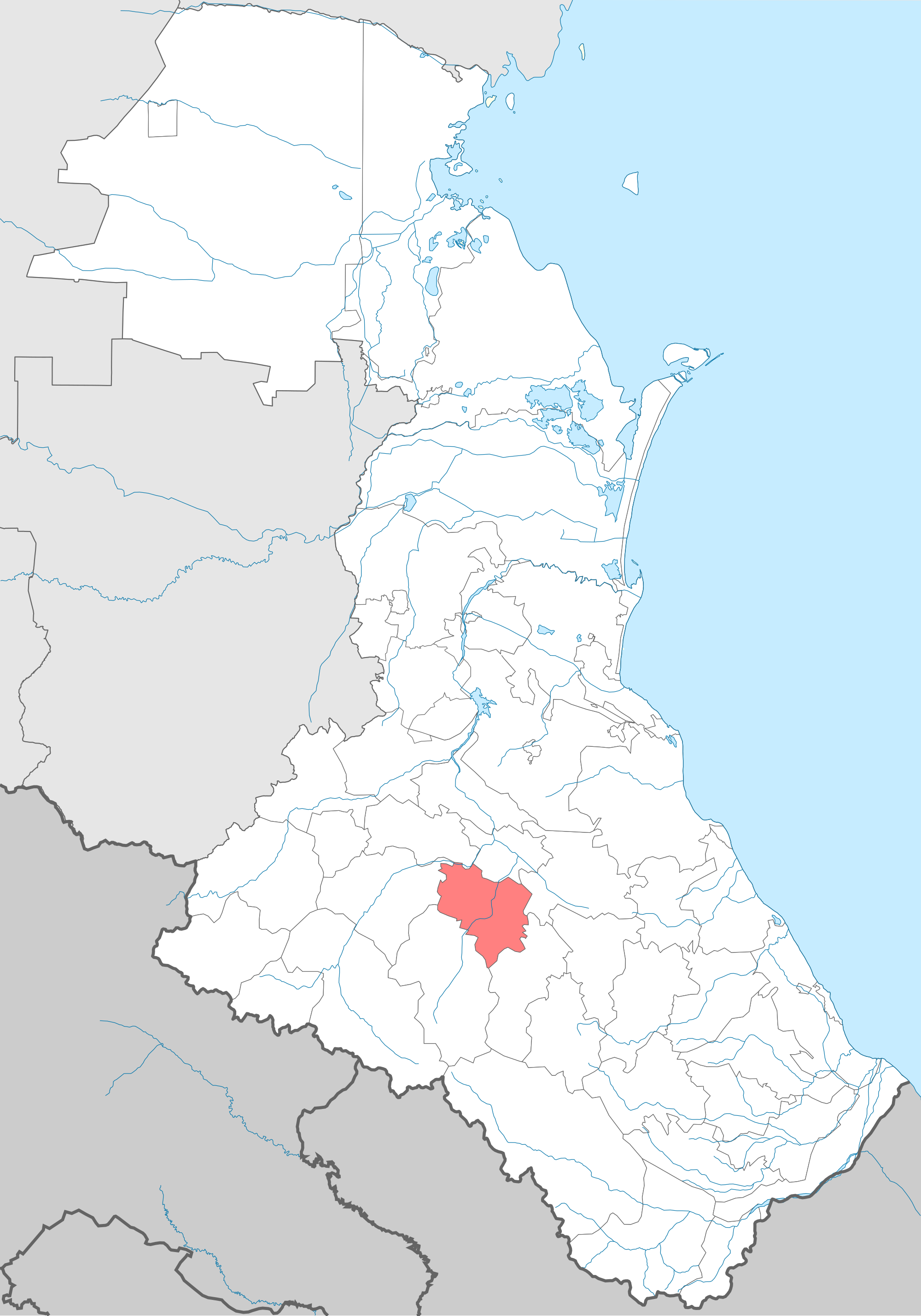 Gunibsky district. Locator Map of Dagestan (Russia)